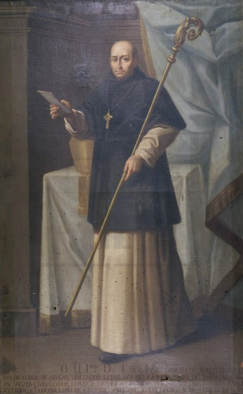 Luis Mercader Escolano (1444–1516), Grand Inquisitor of the Kingdom of Aragon from 1513 to 1516.